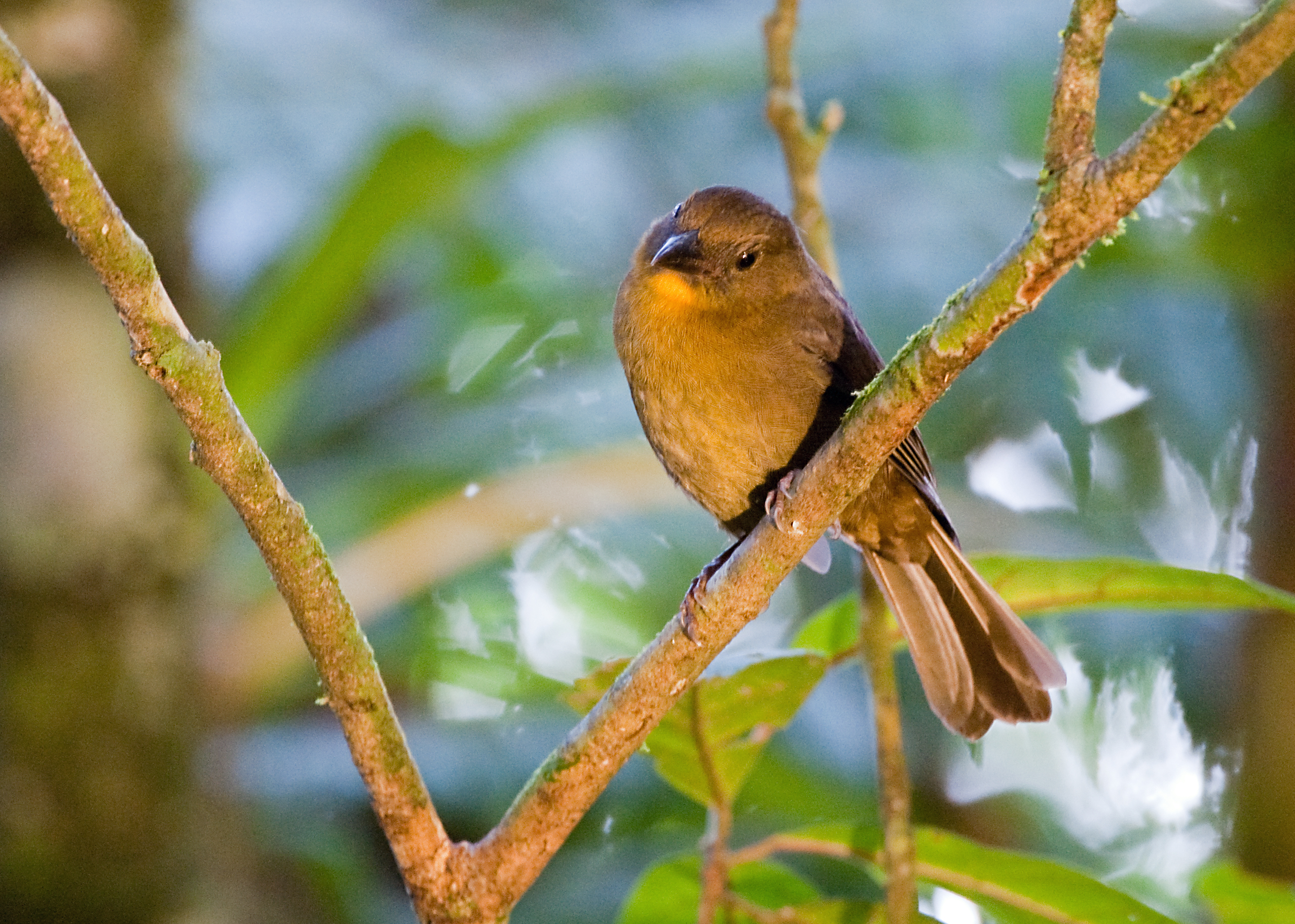 A female Red-throated Ant-tanager near Rancho Naturalista, Cordillera de Talamanca, Costa Rica.